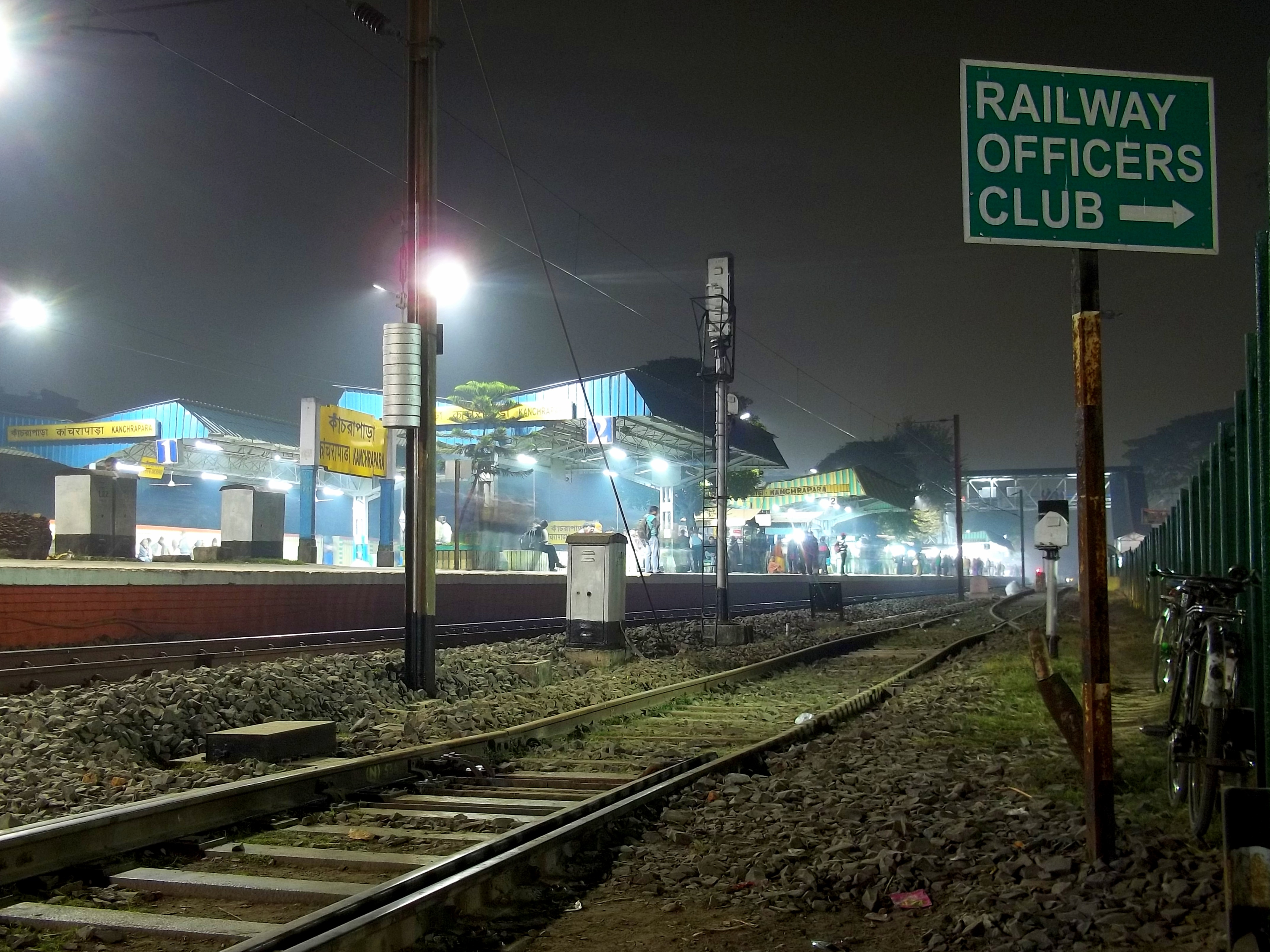 View of Kanchrapara Railway Station in Night.